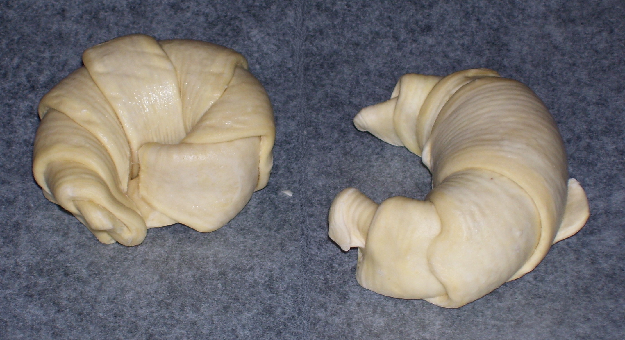 A croissant rising from unbaked dough.